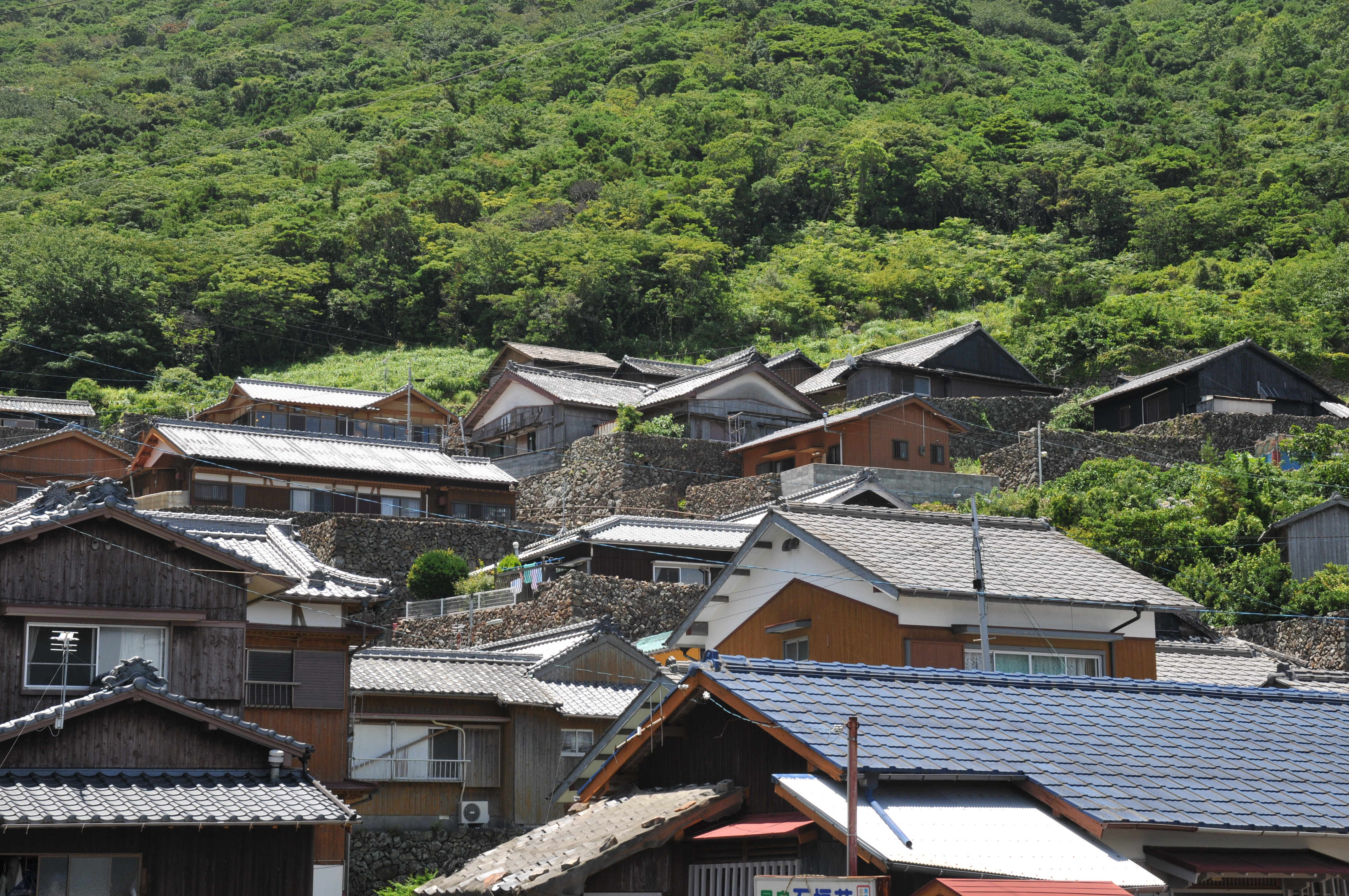 Sotodomari community